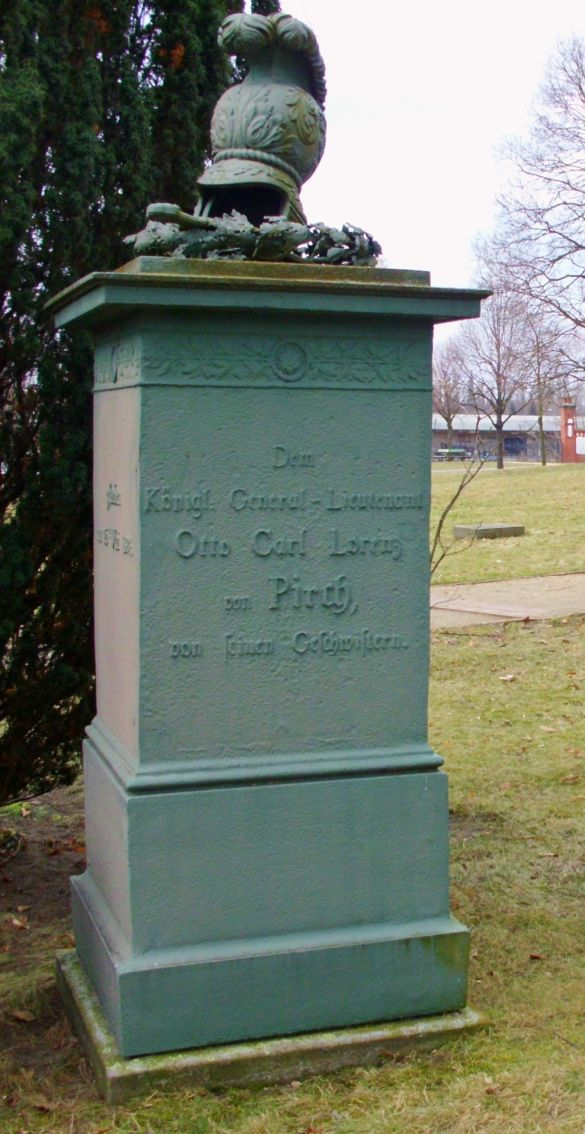 Grave of Otto Carl Lorenz von Pirch